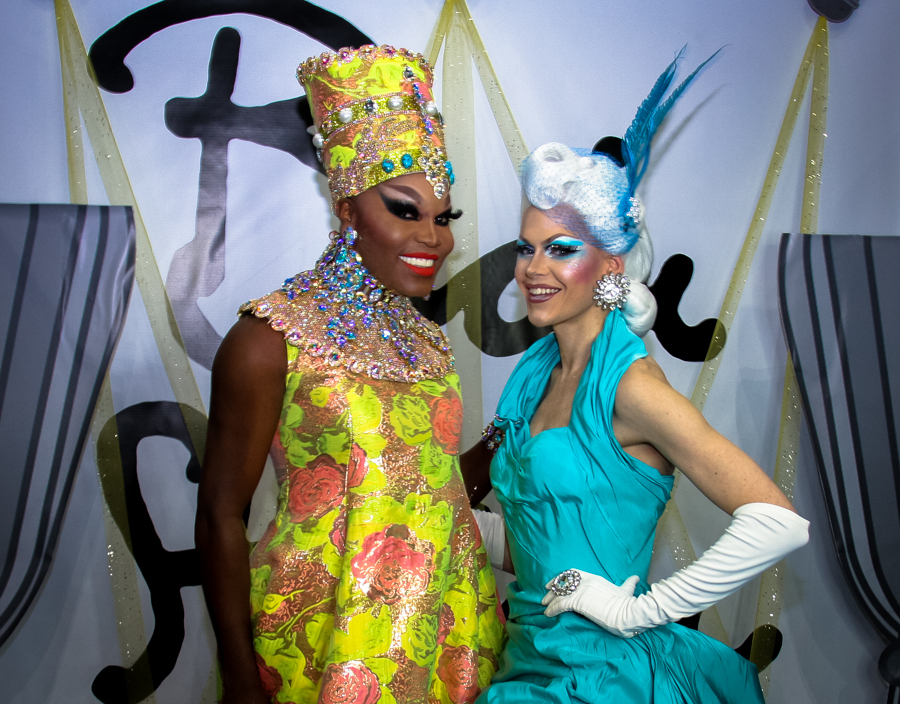 (From left to right) Asia O'Hara and Blair St. Clair (Notes added)